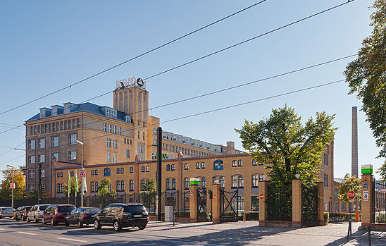 HTW Berlin, University in Berlin, Campus Wilhelminenhof